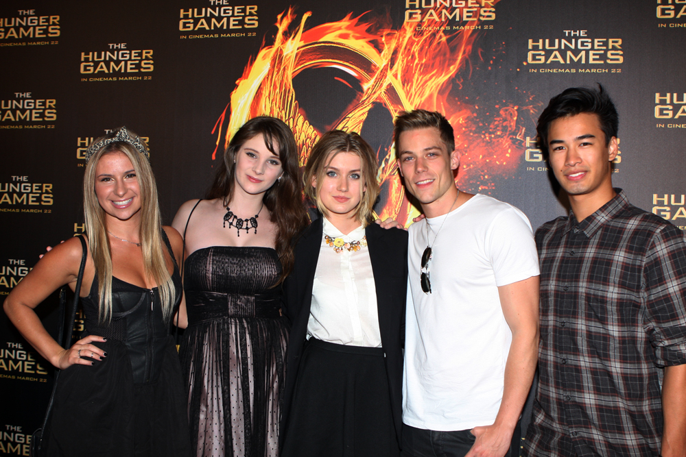 Celebrities at The Hunger Games Sydney Premiere And Review, Sydney Australia.